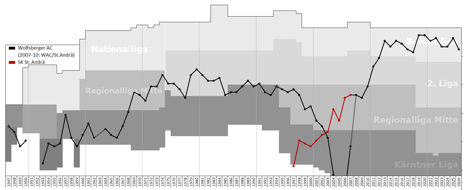 Chart of end-season table positions of Wolfsberg in the Austrian football league system. Data source: RSSSF, , regiowiki.at, kfv-fussball.at, wikipedia